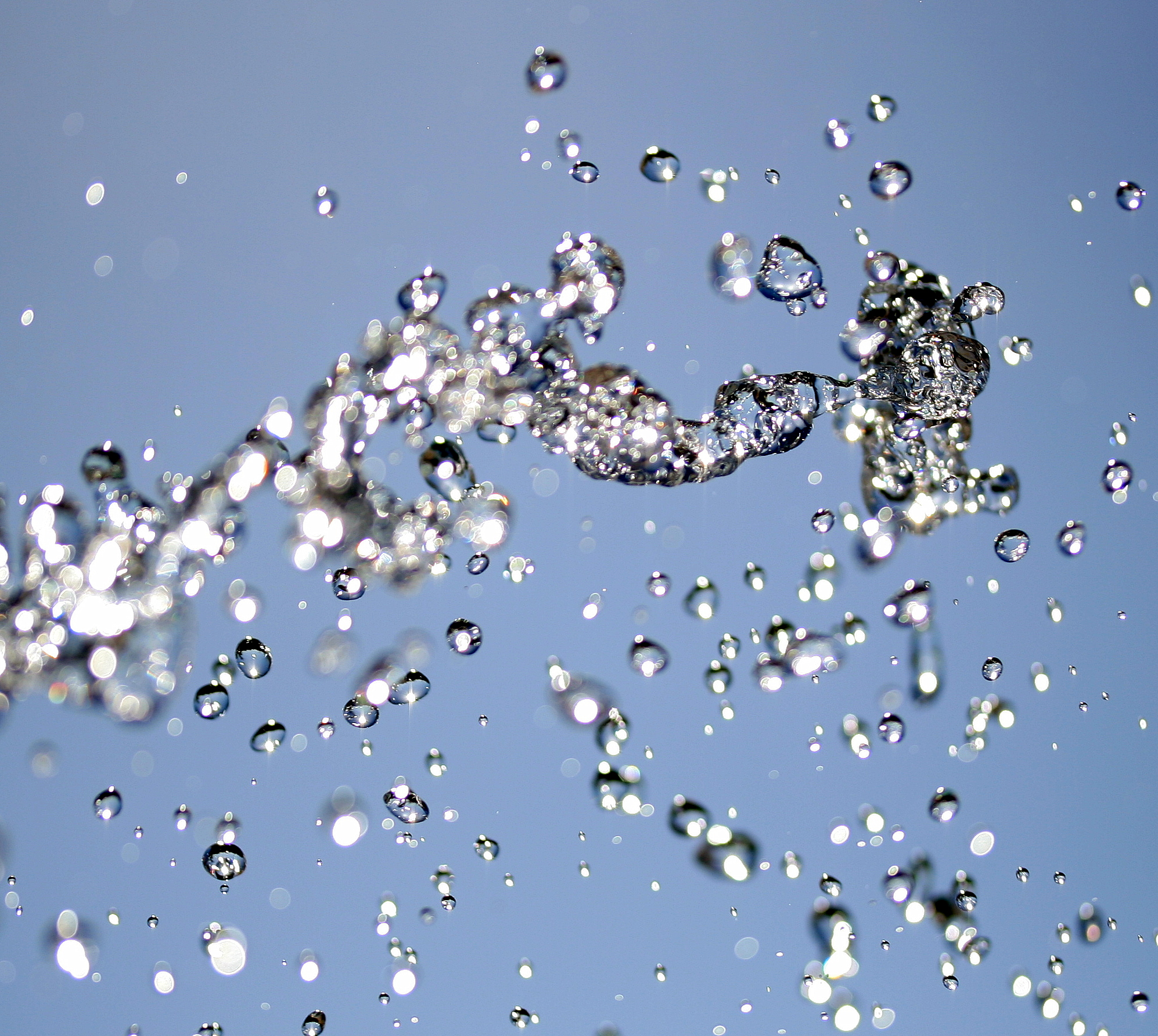 A shower of water diamonds.